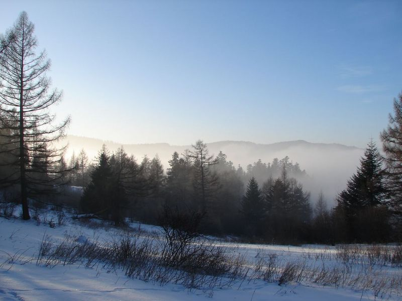 View from meadows Častky (Brezovica, district Sabinov) to west above the valleys Malý Jaškovec, Jaškovec and Kraľovec on the crest of hill Javorinka (1075 m a.s.l.).